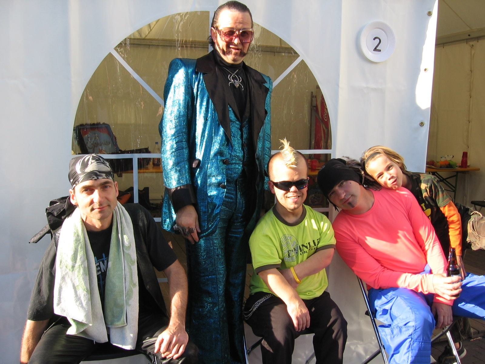 De Sjonnies backstage on Queens Day, Arnhem